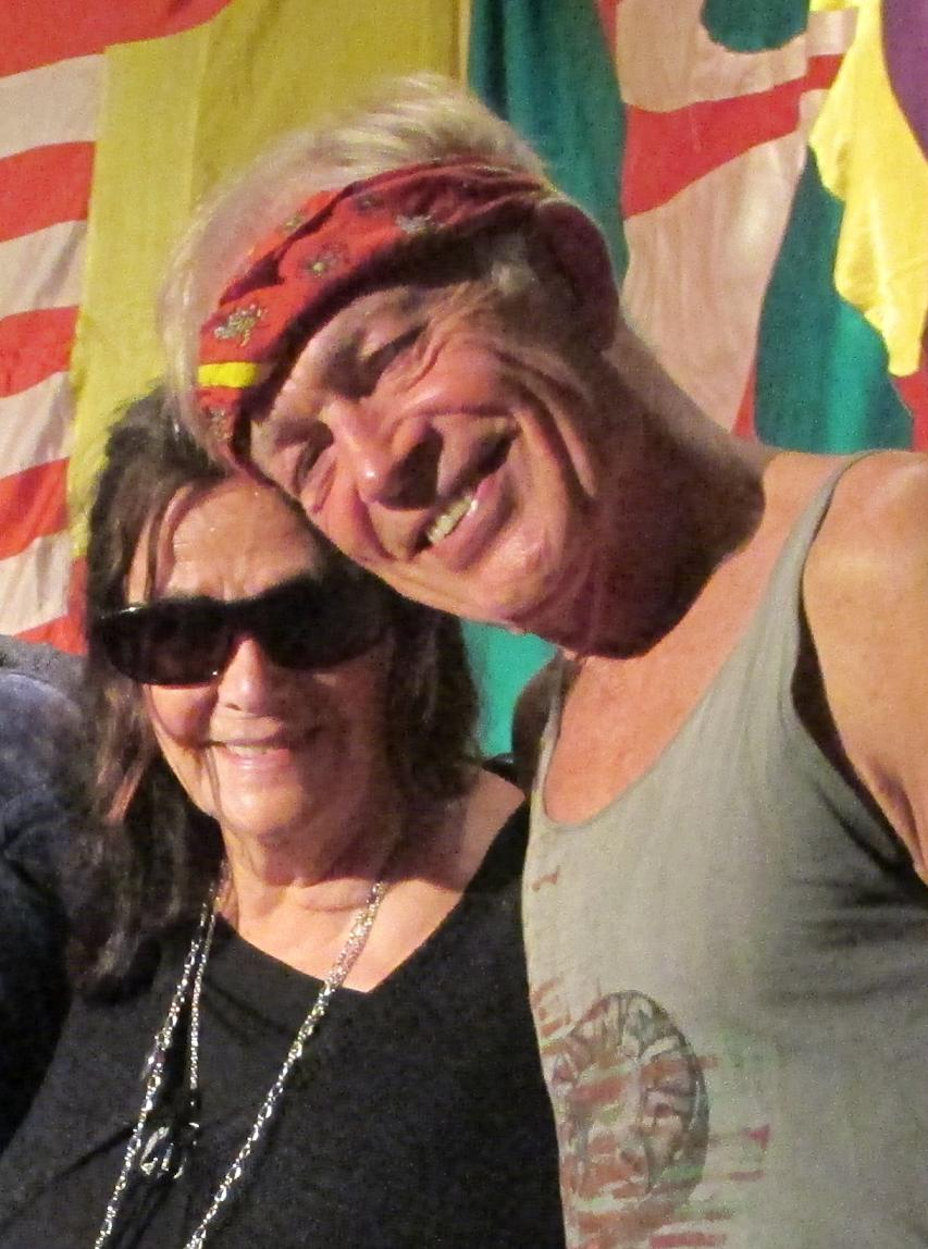 Swedish singers Jane Sannemo & Bill ÖhrströmPlace: Kolingen, Kornhamnstorg, Stockholm, Sweden